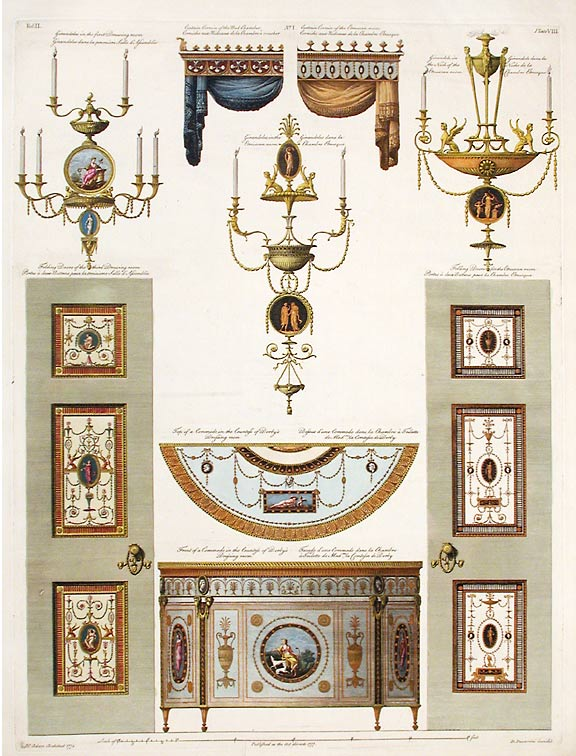 Details for the interiors of Derby House (26 Grosvenor Square) by Robert and James Adam. Published 1777.